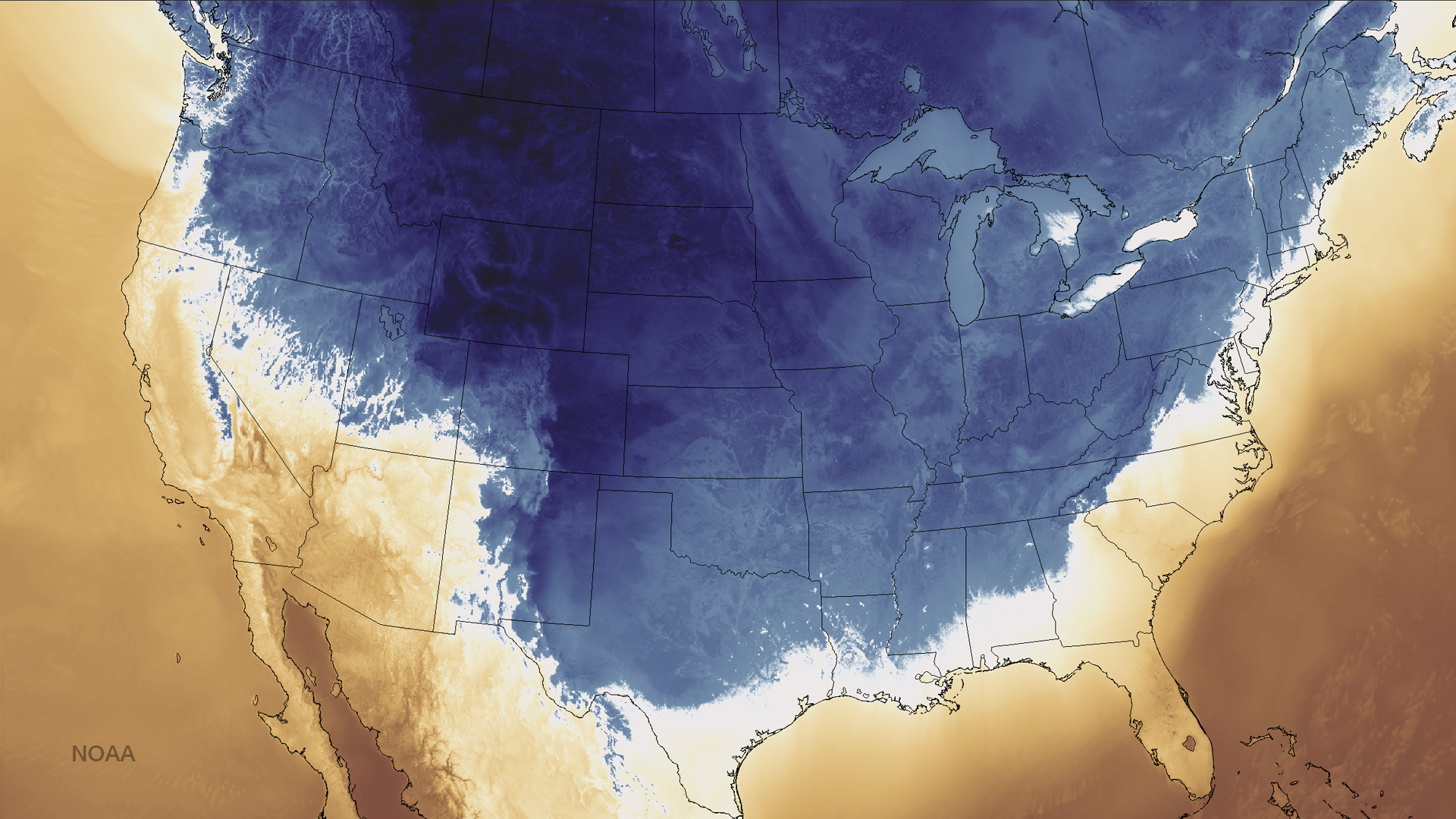 A cold front sweeping deep into the Southern U.S. brings freezing temperatures to large parts of the country. This image from the High Resolution Rapid Refresh model shows the minimum surface air temperature that was expected from November 13th through 0500 UTC on the 14th. Areas shaded blue were at or below freezing. The National Weather Service issued freeze warnings for an area stretchinh from eastern Texas to Georgia. Source: NOAA (minor modifications have been made by the uploader)